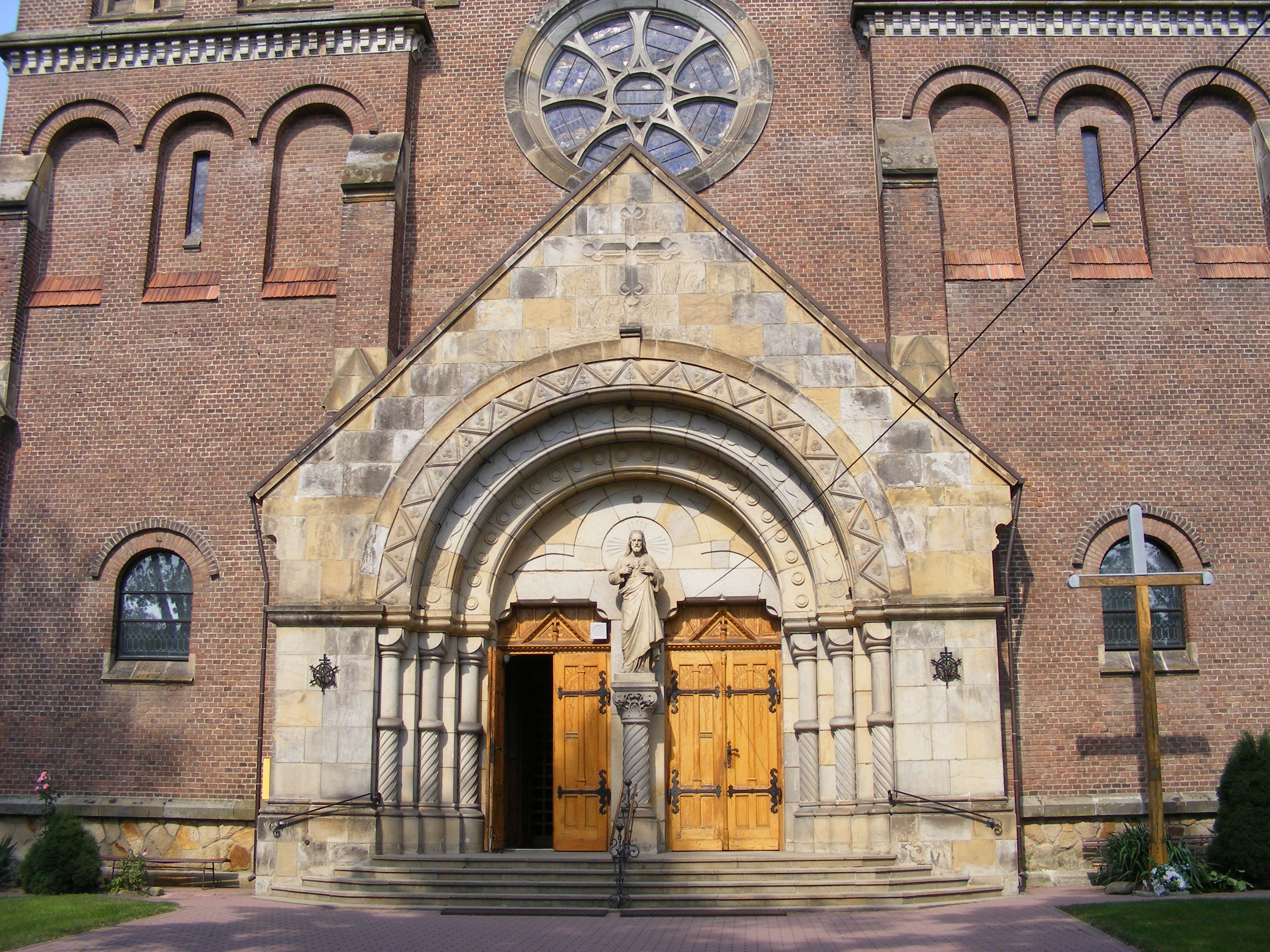 Church in Jedlicze,entrance